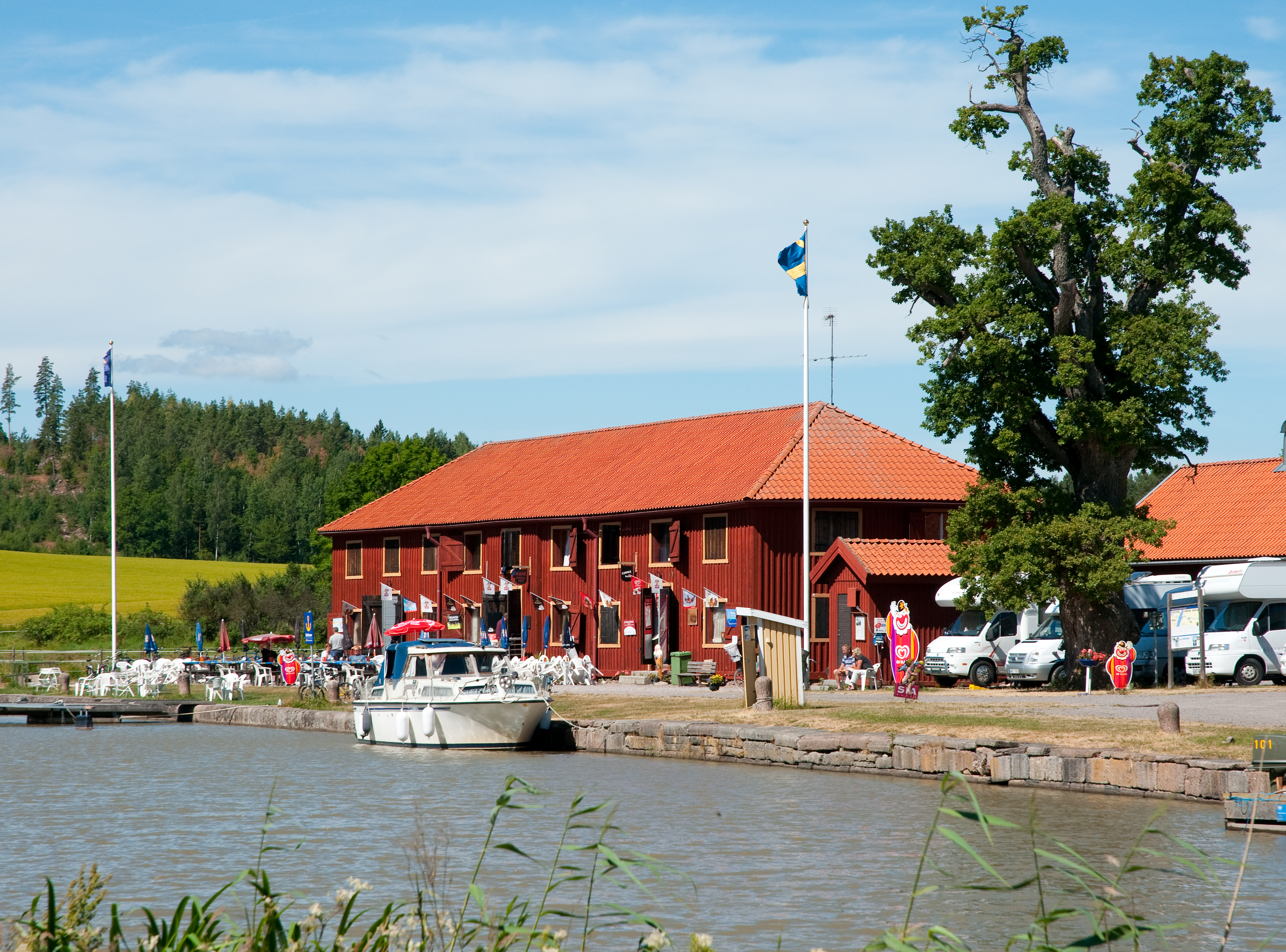 Mem marina and hostels